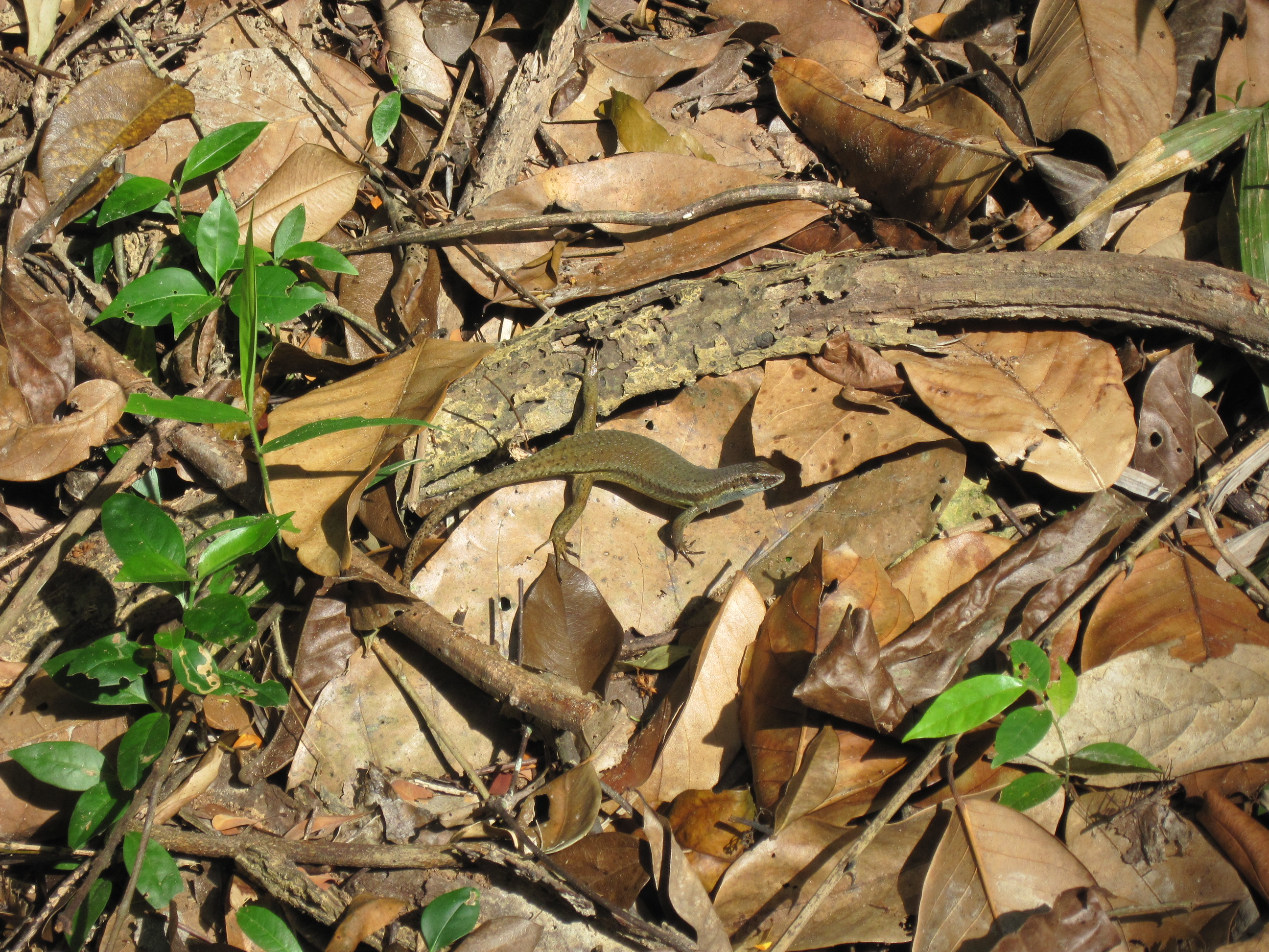 A skink (Eutropis multifasciata) in leaf litter on Manukan Island, off Sabah, Malaysia